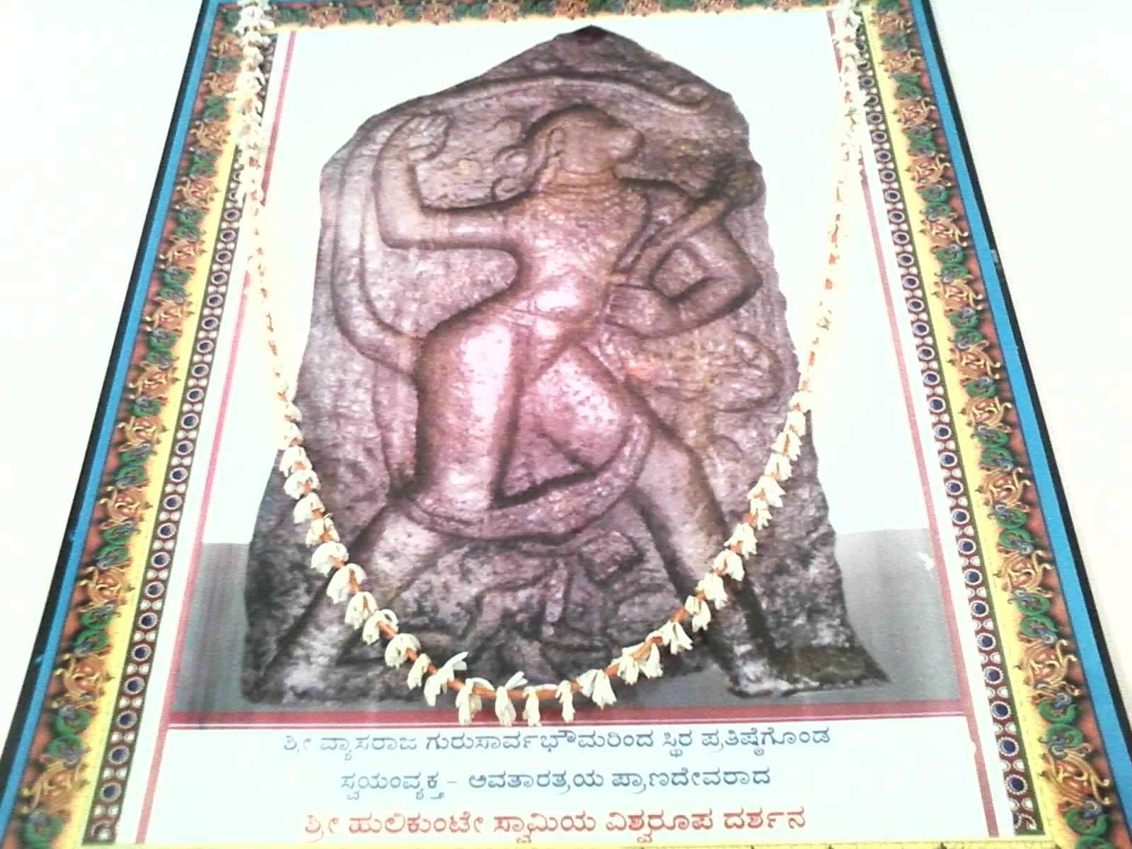 The Image of Hanuman in the form of Hulikuntesha in Bommaghatta village,Bellary,Karnataka.